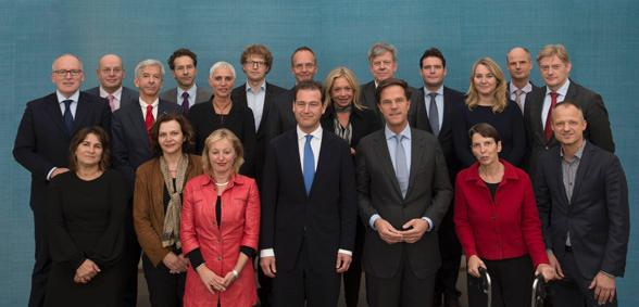 Cabinet Rutte II